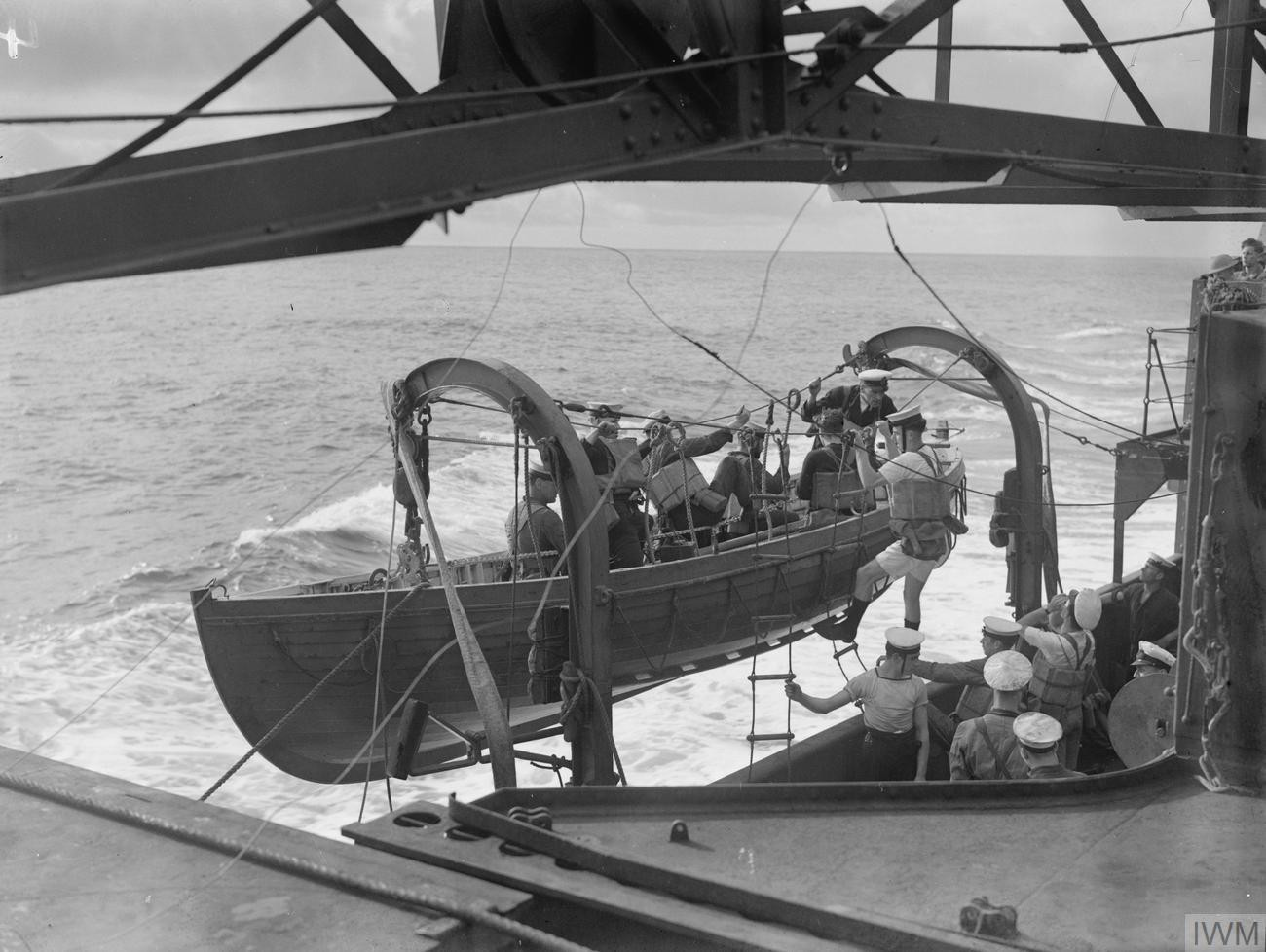 The Montagu whaler was the standard seaboat on many Royal Navy warships. A seaboat was kept ready for use at a moments notice when at sea. In this picture, the whaler is being manned with a boarding party going to inspect a neutral ship to check that she is not carrying anything that would contravene her neutrality. This is one of a series of photos of this boarding activity taken from HMS Sheffield on 20 Oct 1941